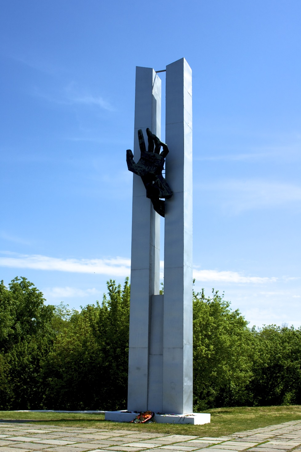 "The Fighters" monument in the Gully of Death